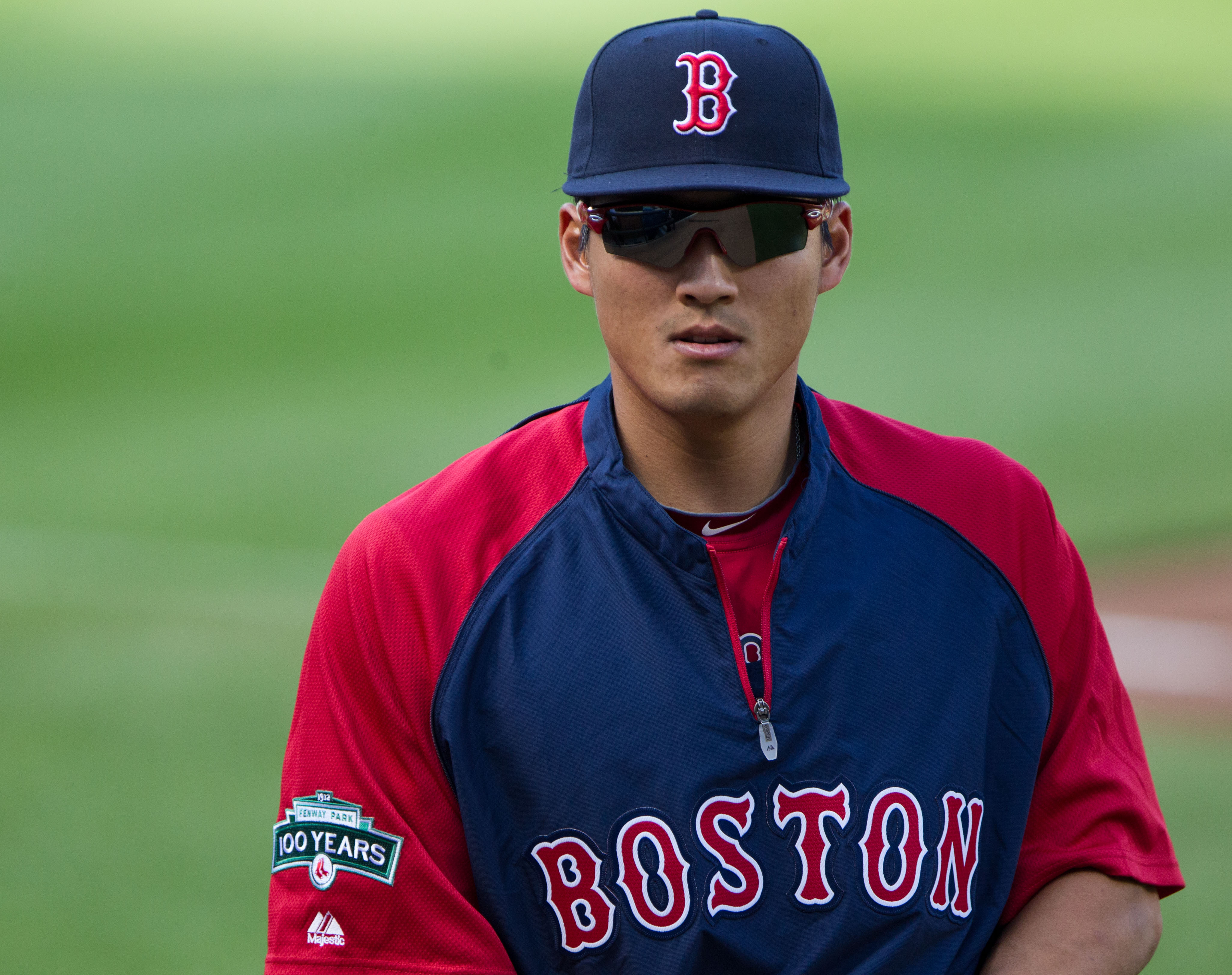 Red Sox at Orioles May 22, 2012